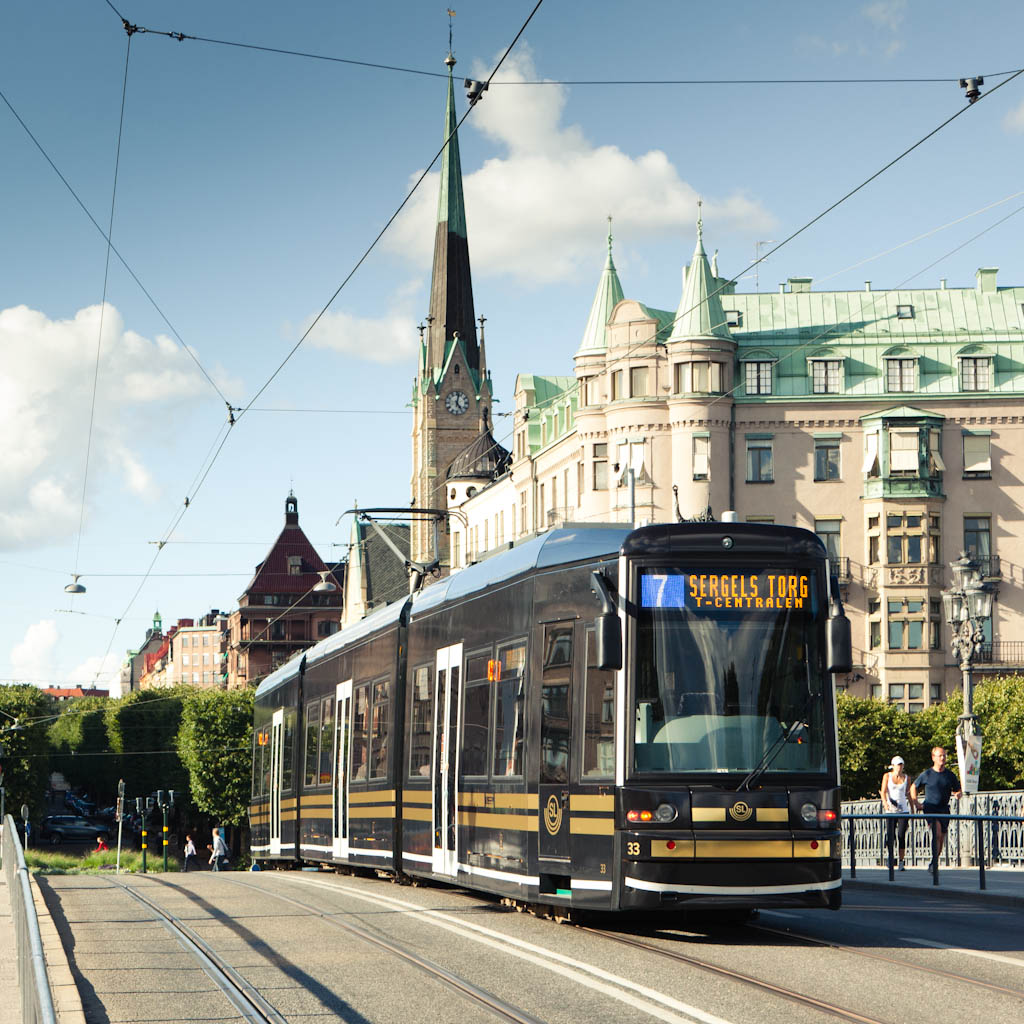 Flexity Classic tram in Stockholm, Sweden.